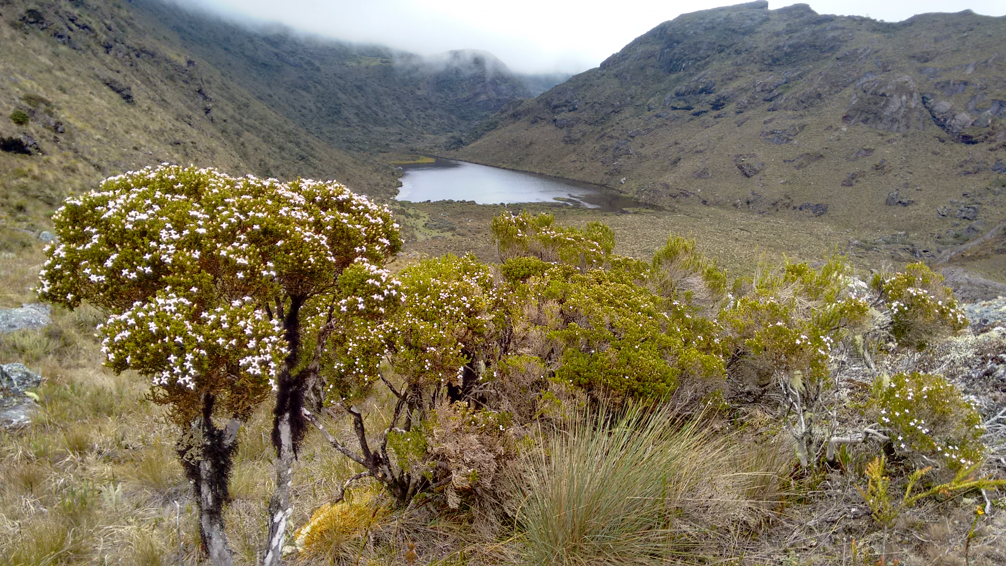 Lake Colorado at Santurbán Mutiscua-Pamplona Regional Park